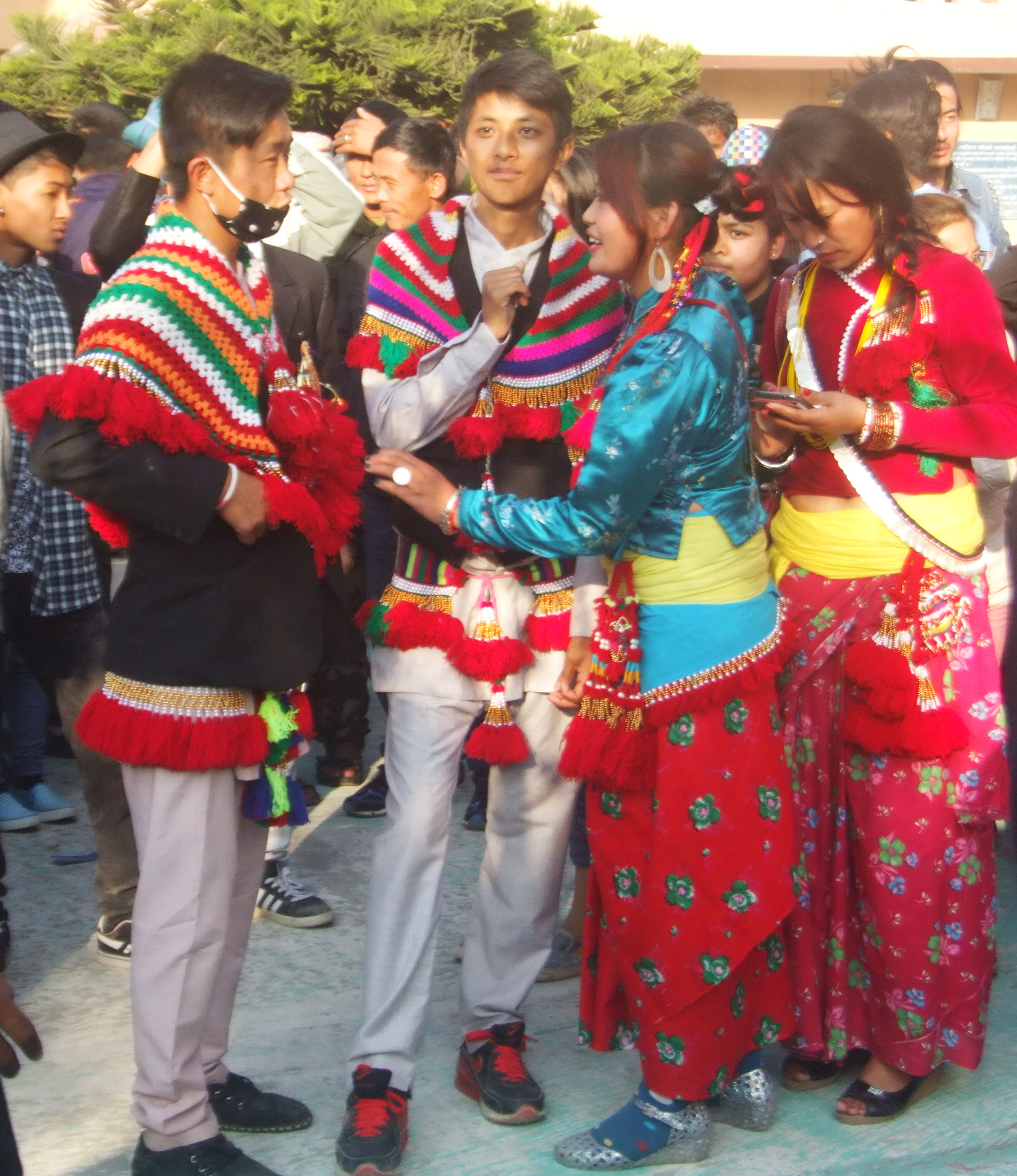 sunuwar male and female